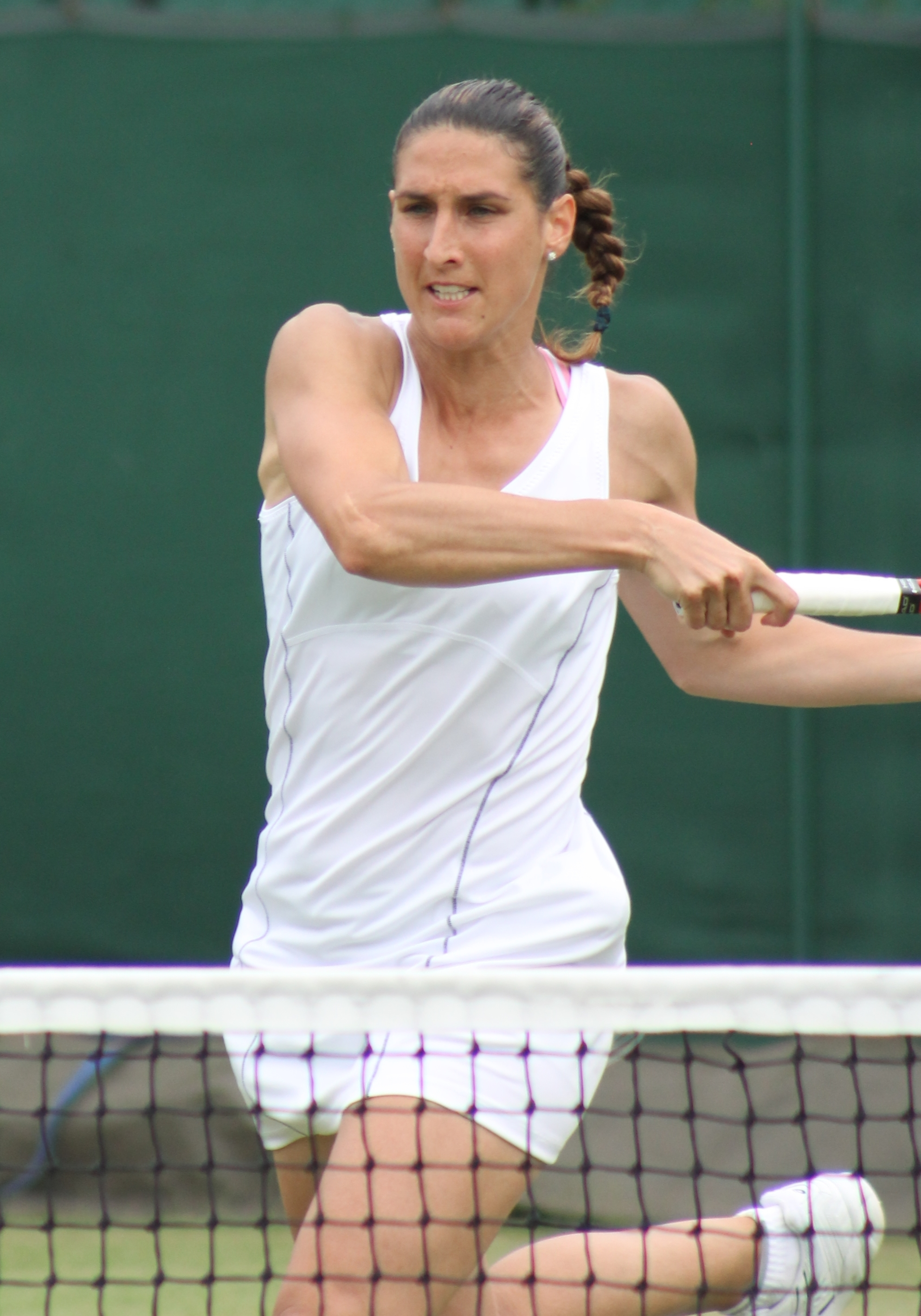 Virginie Razzano, 2013 Wimbledon Qualifying Tournament